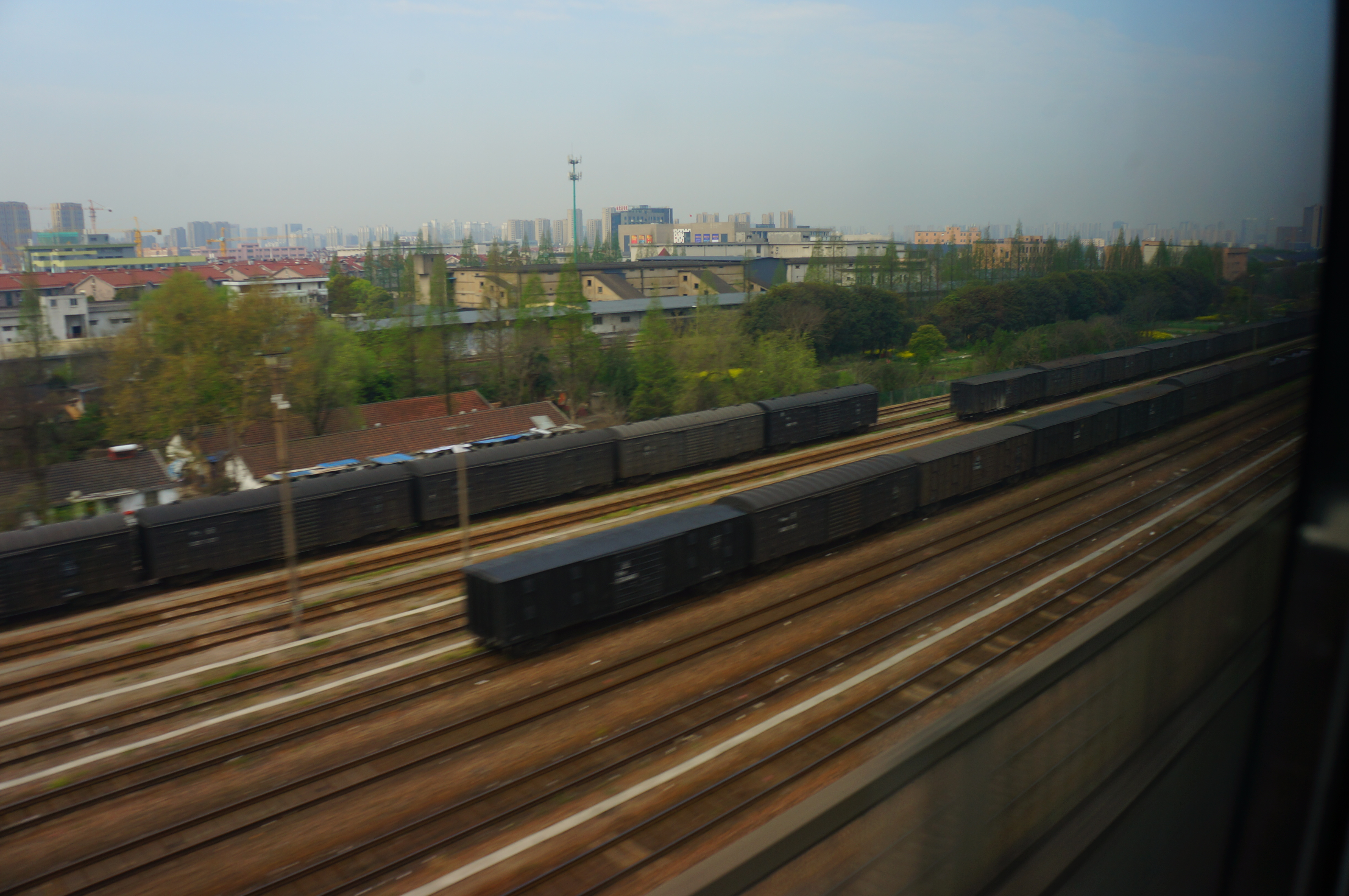 201704 Hangzhoubei Station